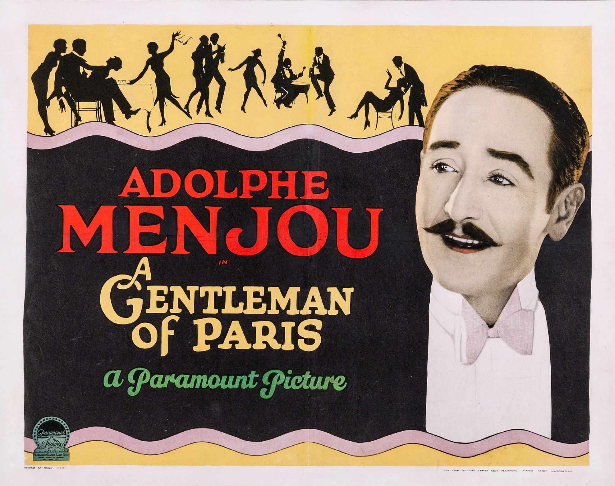 Lobby card for the American comedy film A Gentleman of Paris (1927). There are no copyright marks on the card. At lower left is Country of origin USA and the Paramount logo. At bottom right is This lobby display leased from Paramount Famous Lasky Corporation.